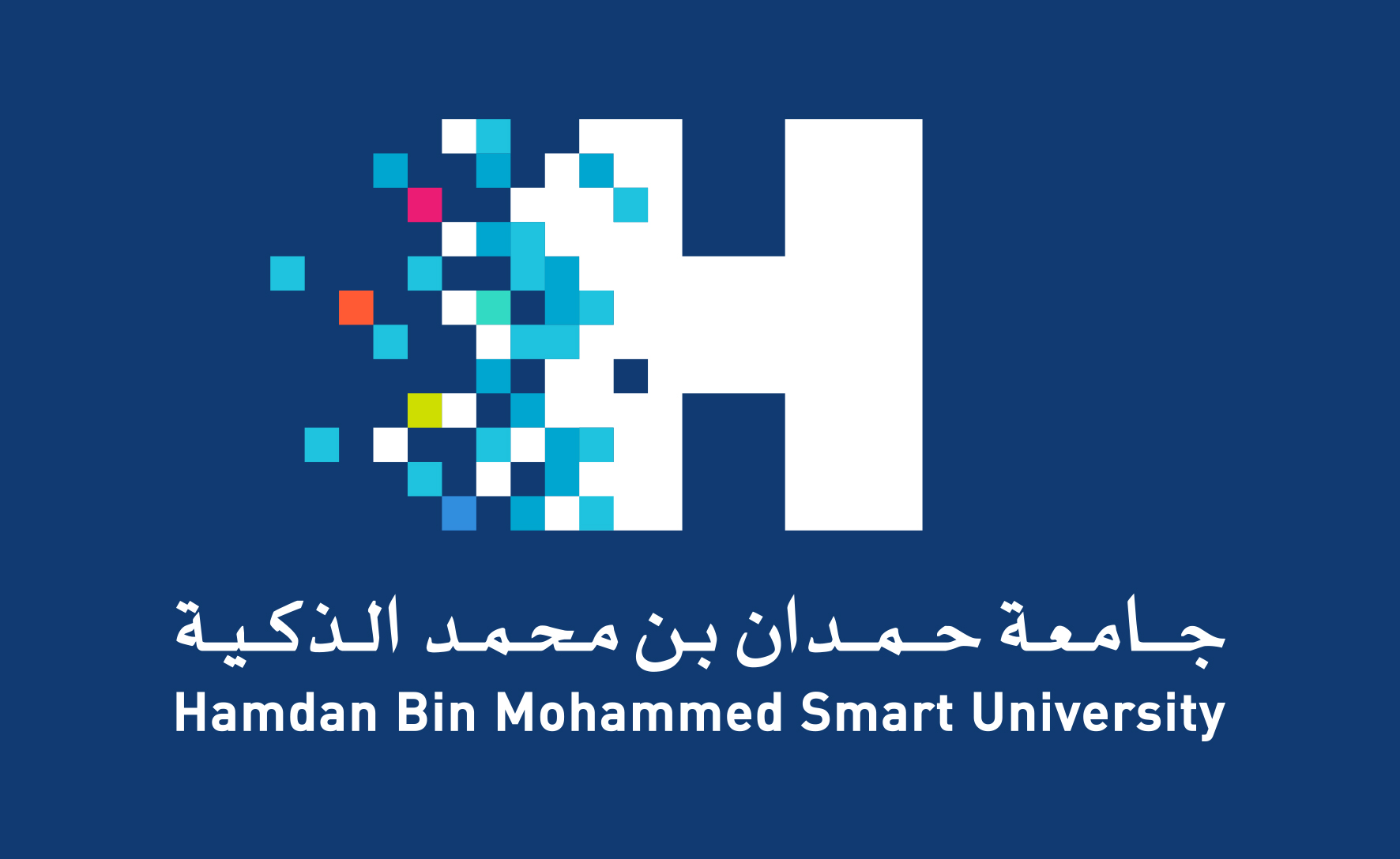 Logo of Hamdan Bin Mohammed Smart University